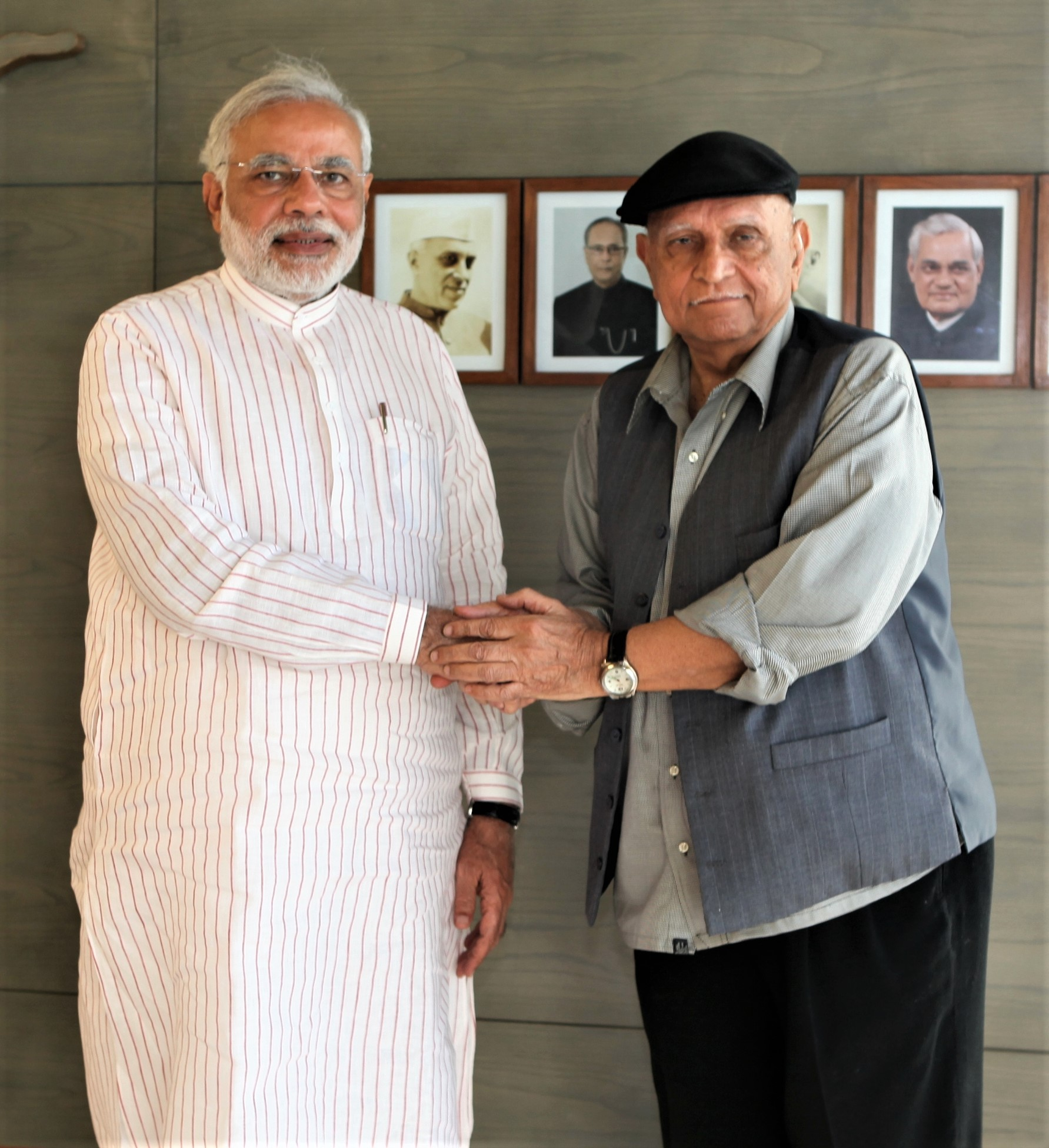 Navin Doshi with Narendra Modi in 2013